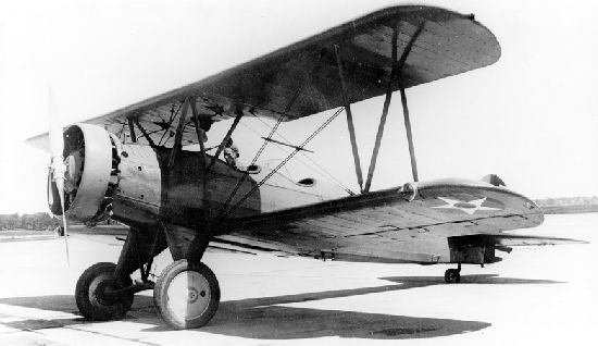 Consolidated BT-7 basic trainer.